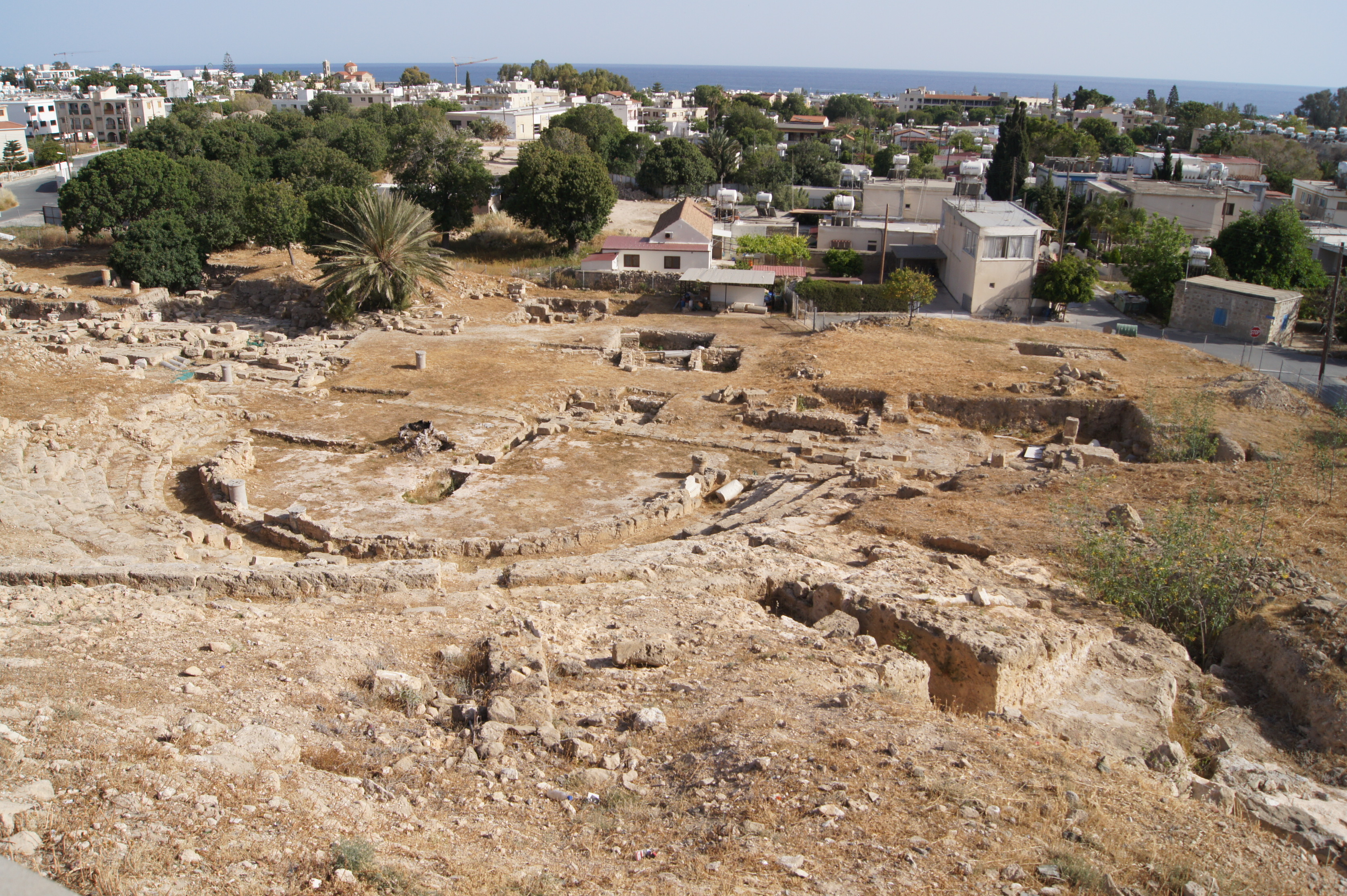 Ancient Greek theatre of Paphos